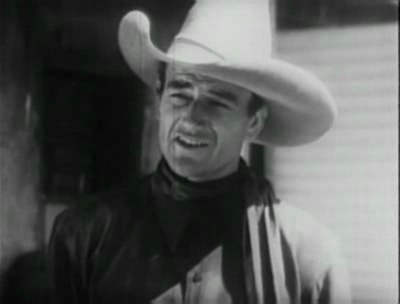 John Wayne in The Dawn Rider, a 1935 film by Robert N. Bradbury